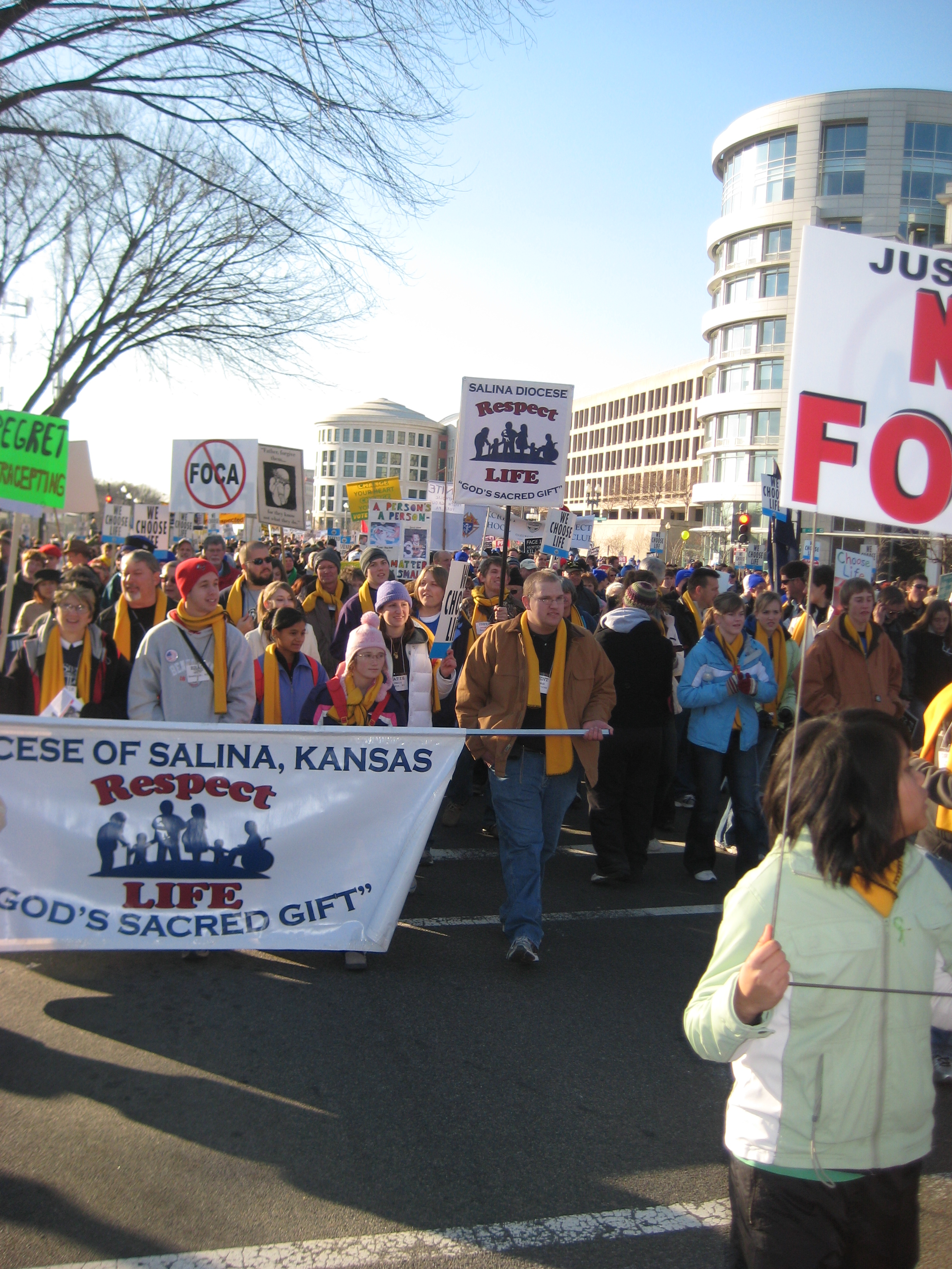 Protester at the 2009 March For Life in Washington with signs opposing FOCA.